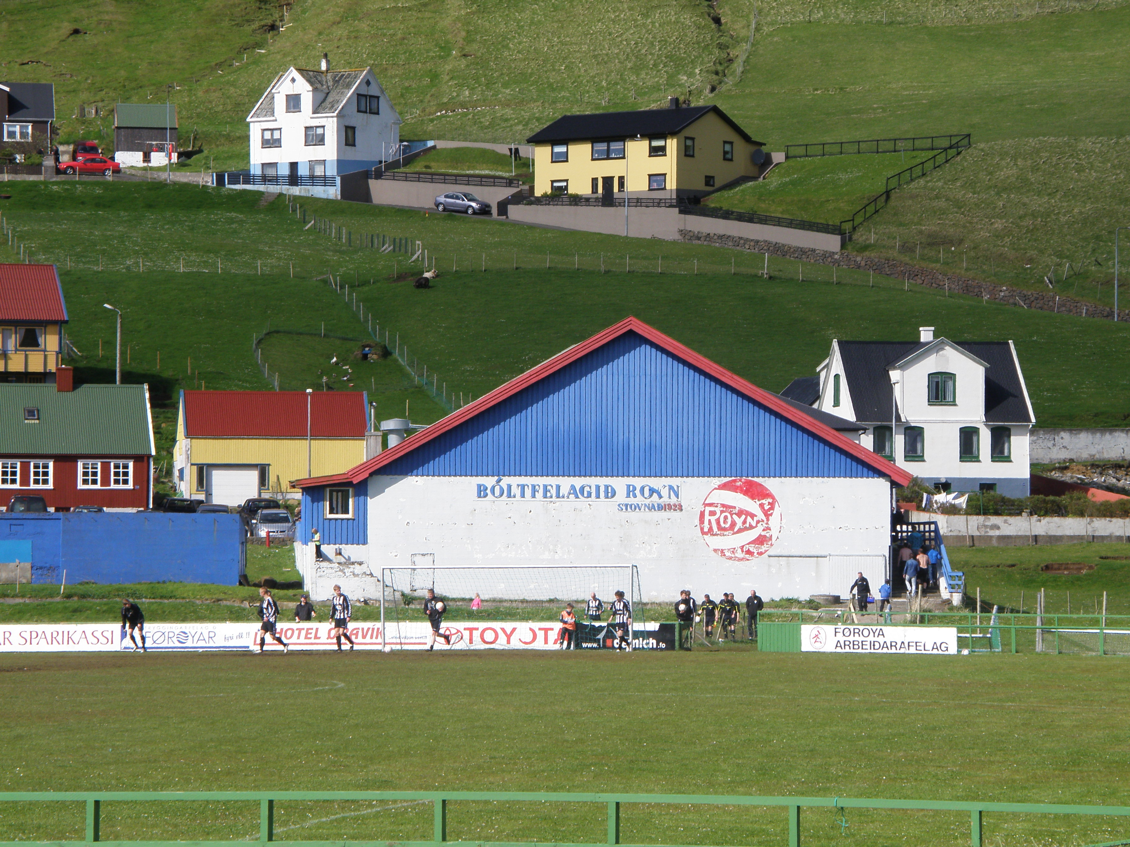 Hvalba is a village in Suðuroy, Faroe Islands. The sports club of Hvalba is called Royn. The sports and community hall Roynhøllin was built in 1973, it was one of the first of its kind in the Faroe Islands together with KÍ høllin in Klaksvík. The football field in Hvalba is next to Roynhøllin, near the sandy beach. The football field has natural grass. In 2011 the football field in Hvalba was not only home field for Royn Hvalba, but also for TB Tvøroyri, because the football fild on Sevmýri is in too bad shape to be used any longer. TB is making a new football field in Trongisvágur, but until it is ready they use the football field in Hvalba to their home matches. Føroyskt: Roynhøllin í Hvalba var ein av fyrstu ítróttarhøllunum sum var bygd í Føroyum. Hon var tikin í brúk í 1973. Bóltfelagið Royn spælir heimadystirnir á Skørinum í Hvalba. Vøllurin er beint við strondina og beint við Roynhøllina. Vøllurin er grasvøllur. Í 2011 nýtur TB eisini henda vøllin til teirra heimadystir, tí tann á Sevmýri ikki lýkur treytirnar longur. Á hesi myndini er fótbóltsdystur í 1. deild millum TB og NSÍ, TB vann dystin 4-1. Seinni hálvleikur skuldi júst byrja, tá myndin varð tikin.